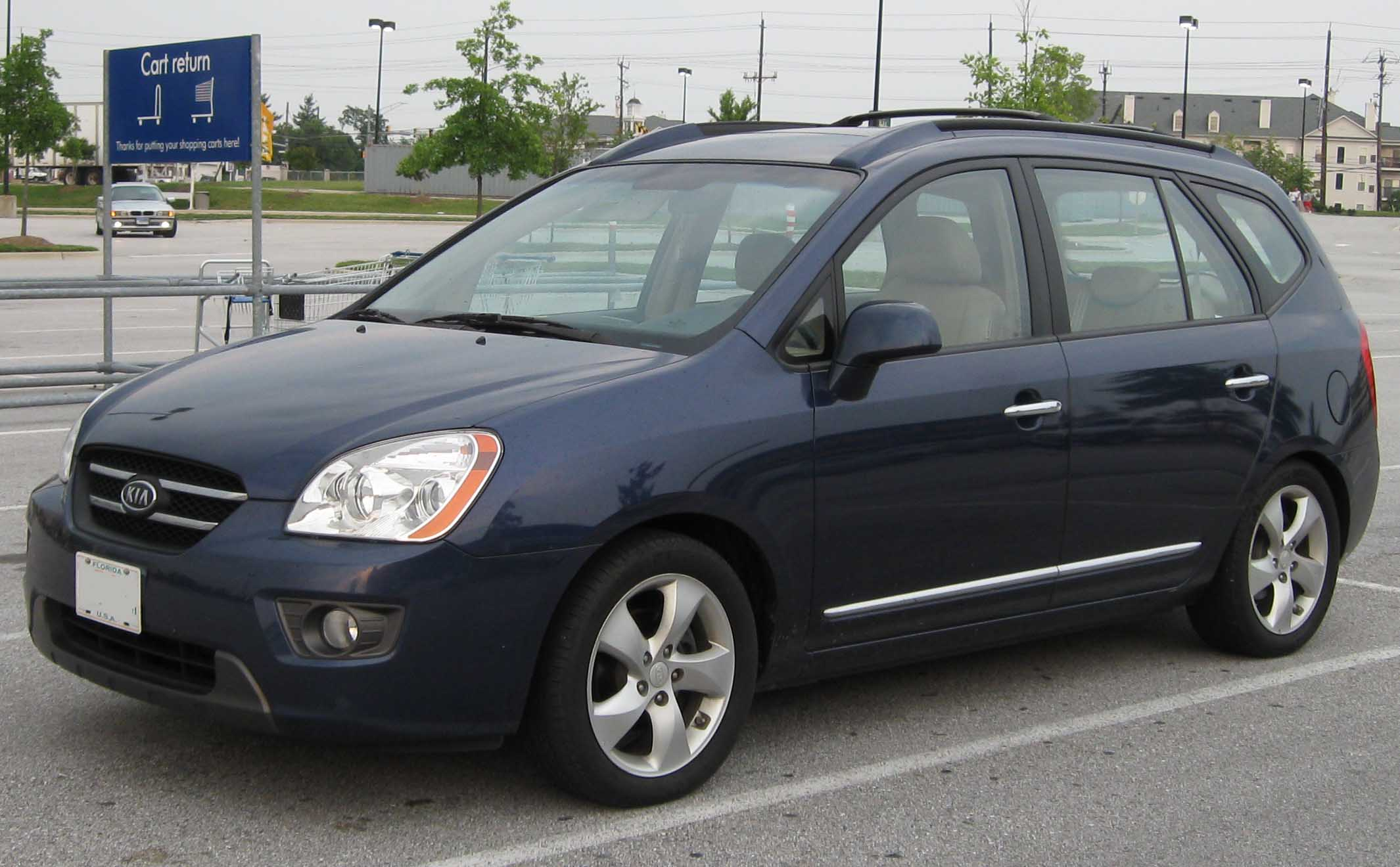 2007-2008 Kia Rondo photographed in College Park, Maryland, USA.